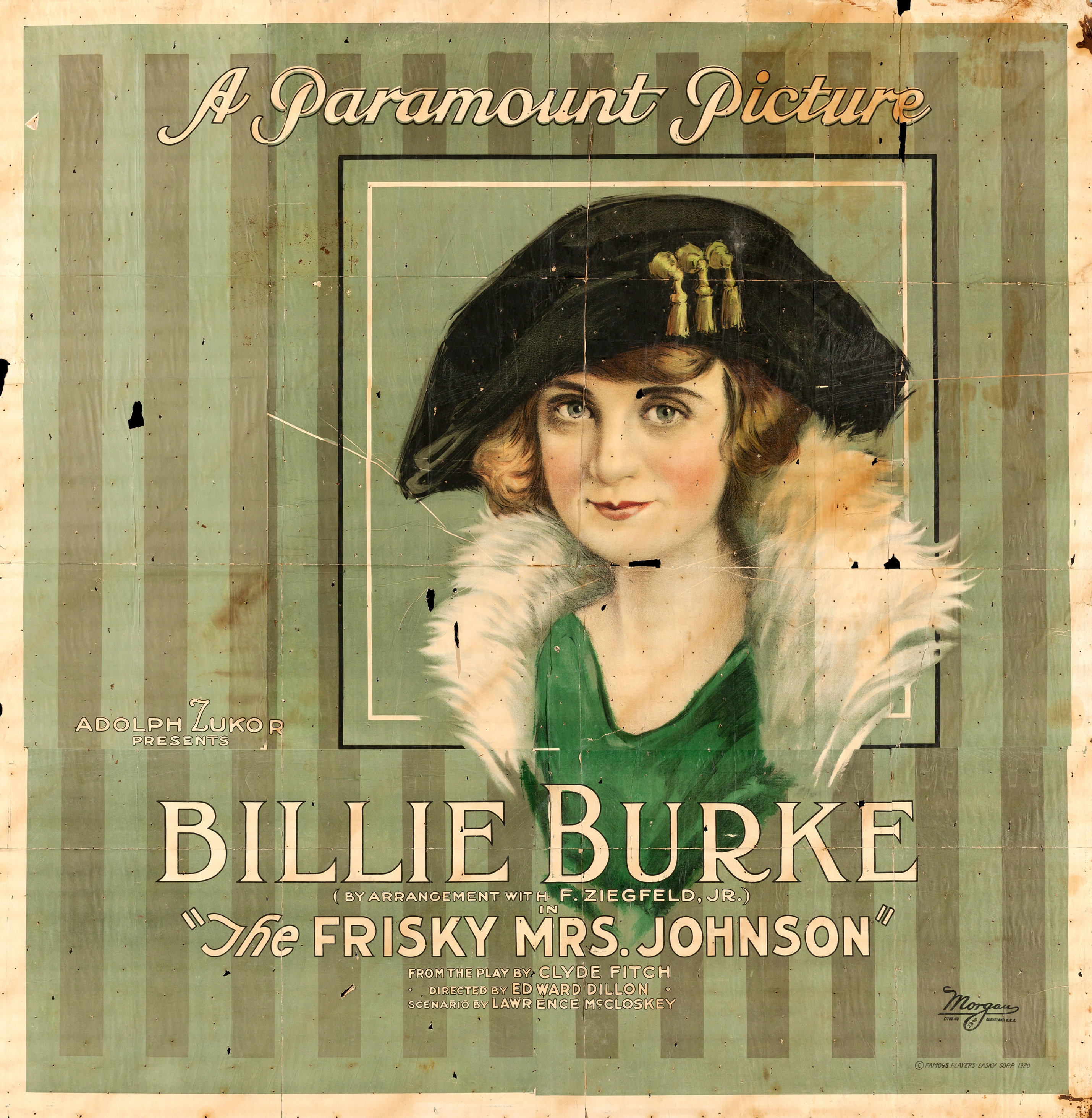 Template:EN